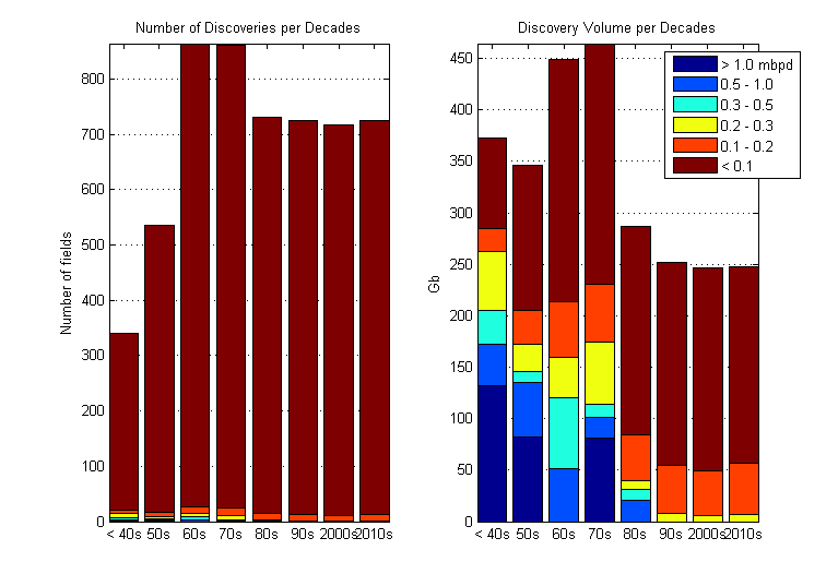 Number of oil fields discovered per decades (left) and corresponding oil volumes (right) in giga-barrels (Gb). Data taken from the annex B of "Twilight in the Desert" by Matthew Simmons (2005).